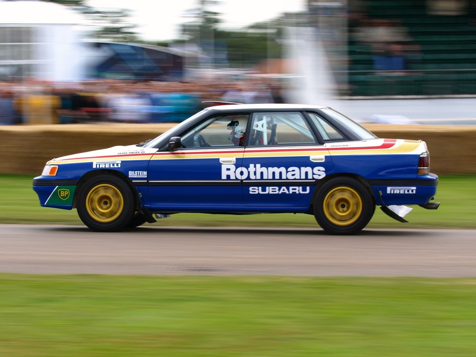 Colin McRae's former Subaru Legacy RS at the Goodwood Festival of Speed 2008.